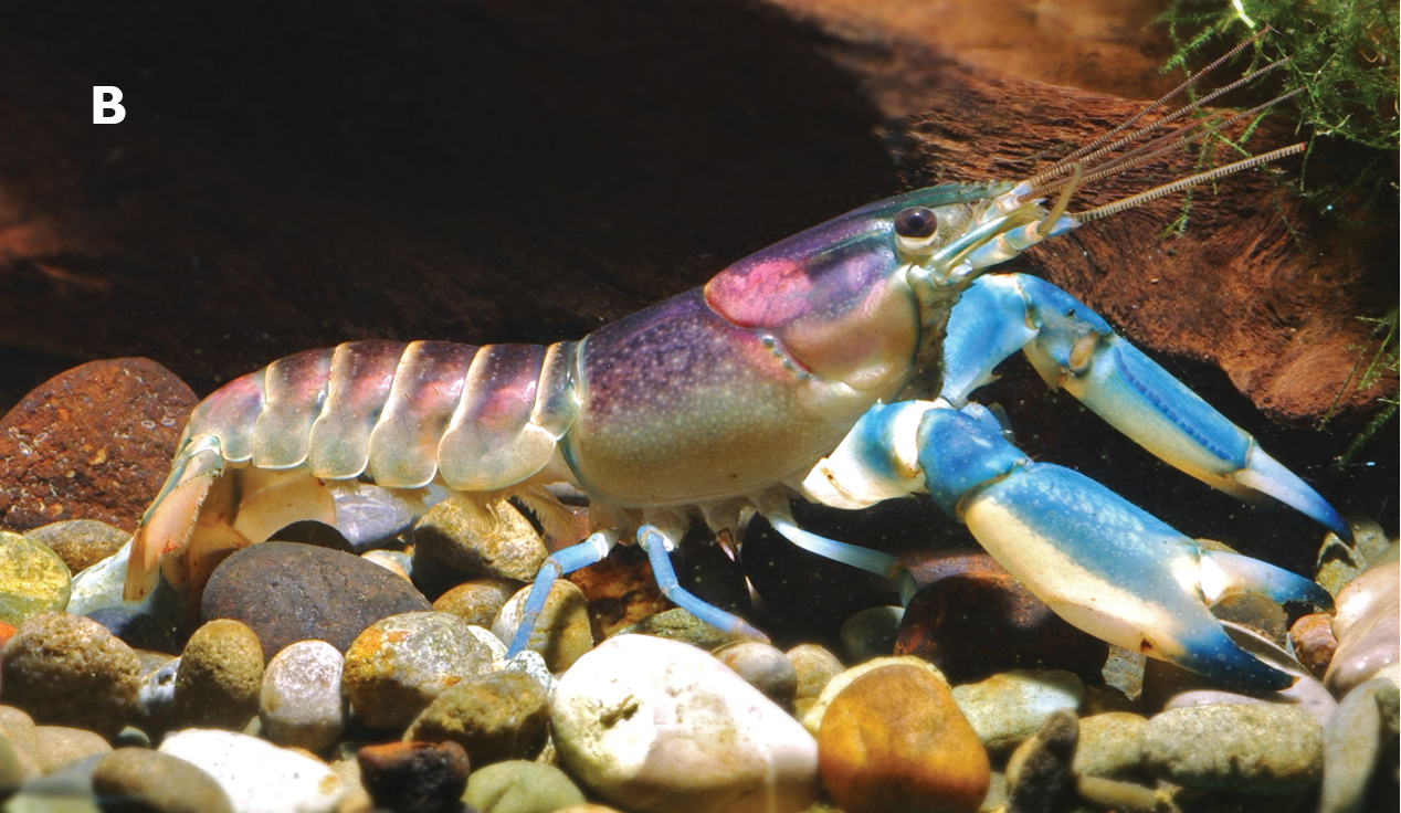 Cherax (Astaconephrops) pulcher sp. n. immature male from Hoa Creek, West Papua.